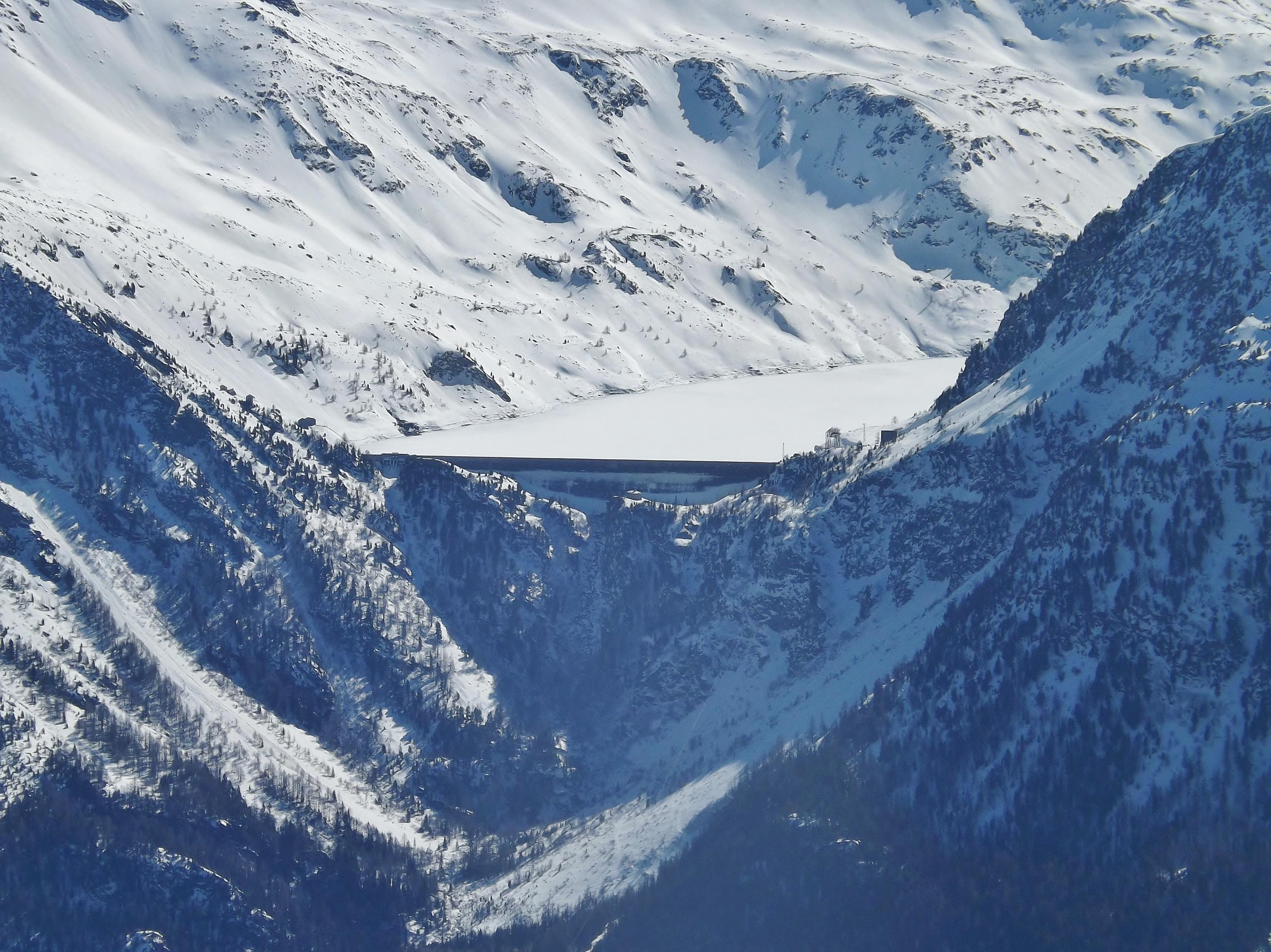 Sight, from the cime de Caron, of the barrage de Bissorte dam, in Savoie, France.